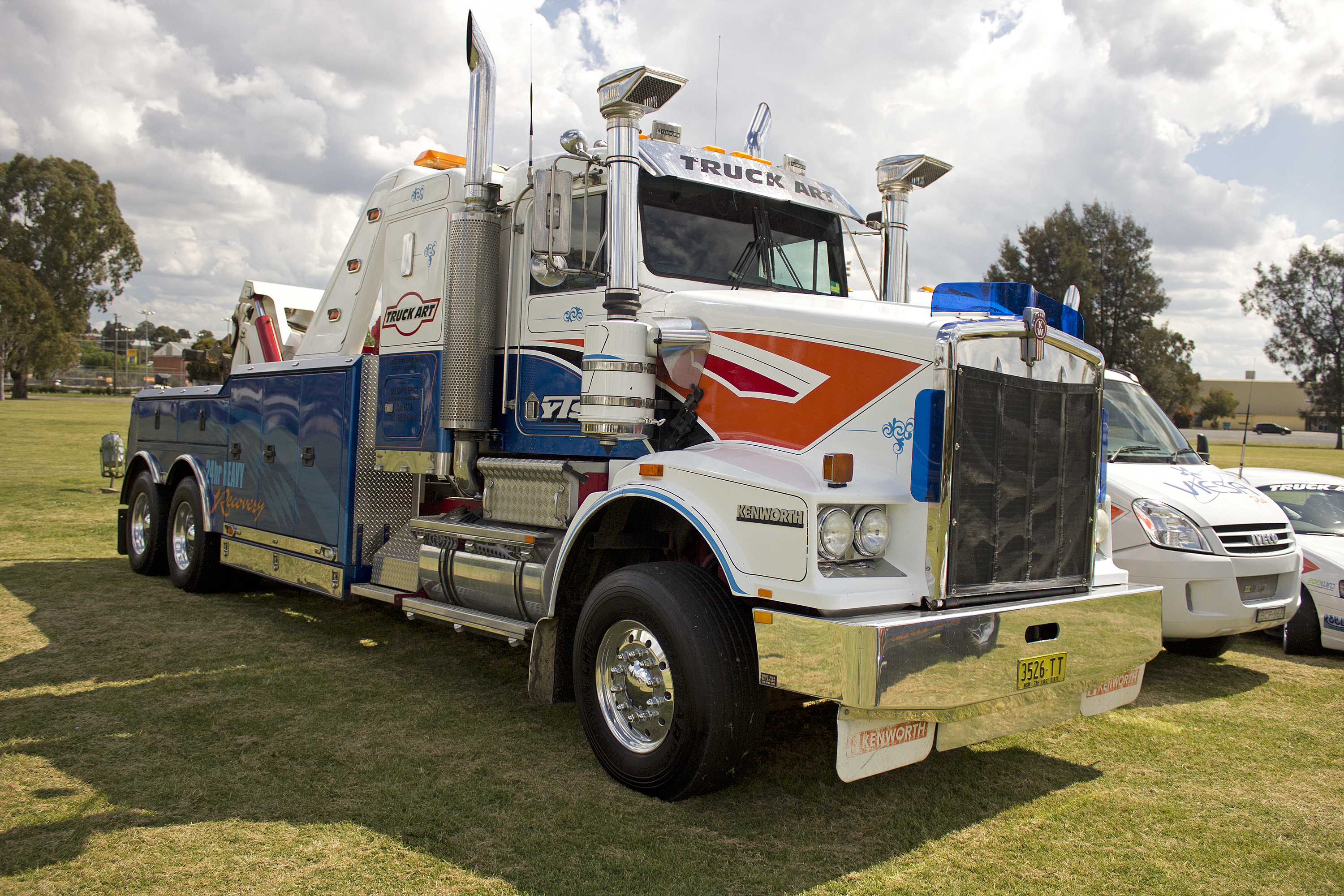 Kenworth T650 tow truck, used to tow trucks which can't be repaired by roadside mechanics.